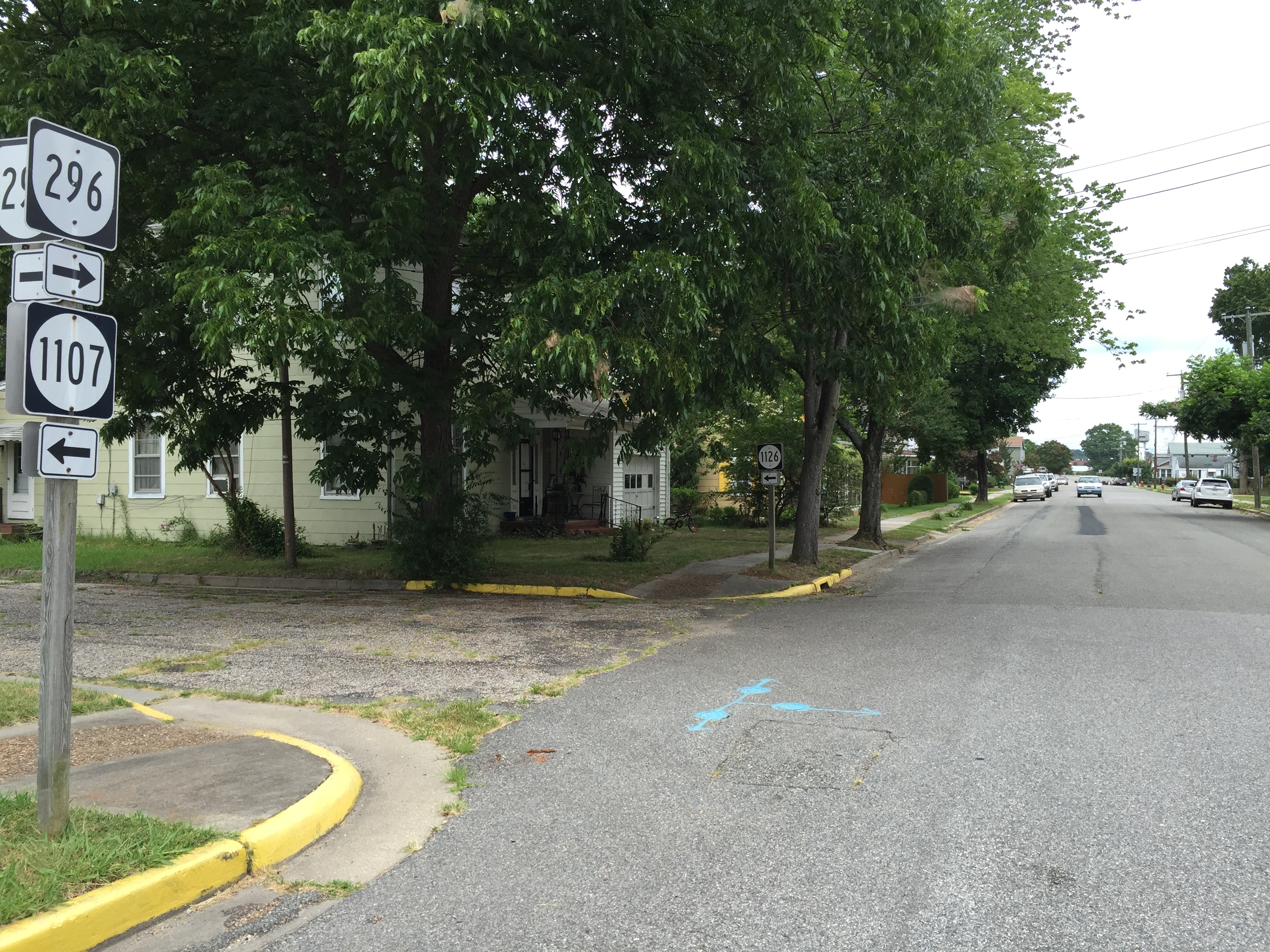 View northwest along Virginia State Route 296 (Kirby Street) at 10th Street in West Point, King William County, Virginia